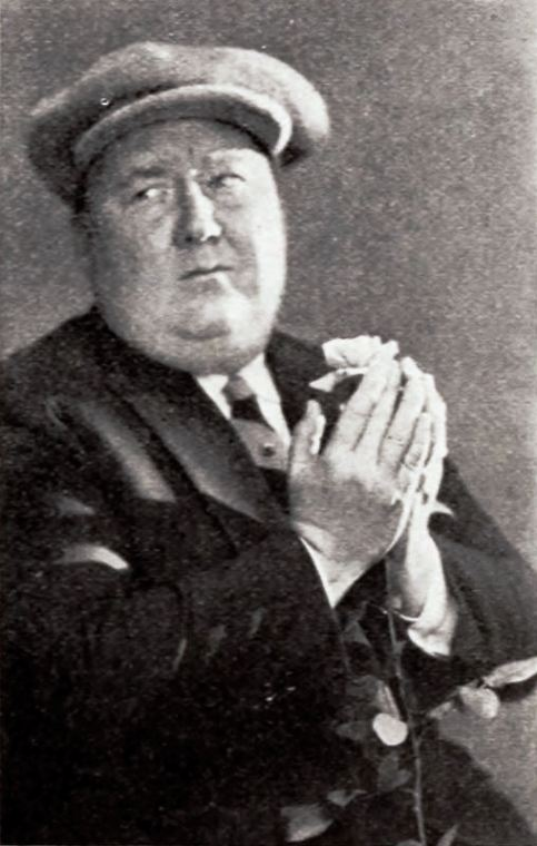 Still from the American comedy film Is Matrimony a Failure? (1922) with Walter Hiers holding a flower, on page 43 of the February 4, 1922 Exhibitors Herald.